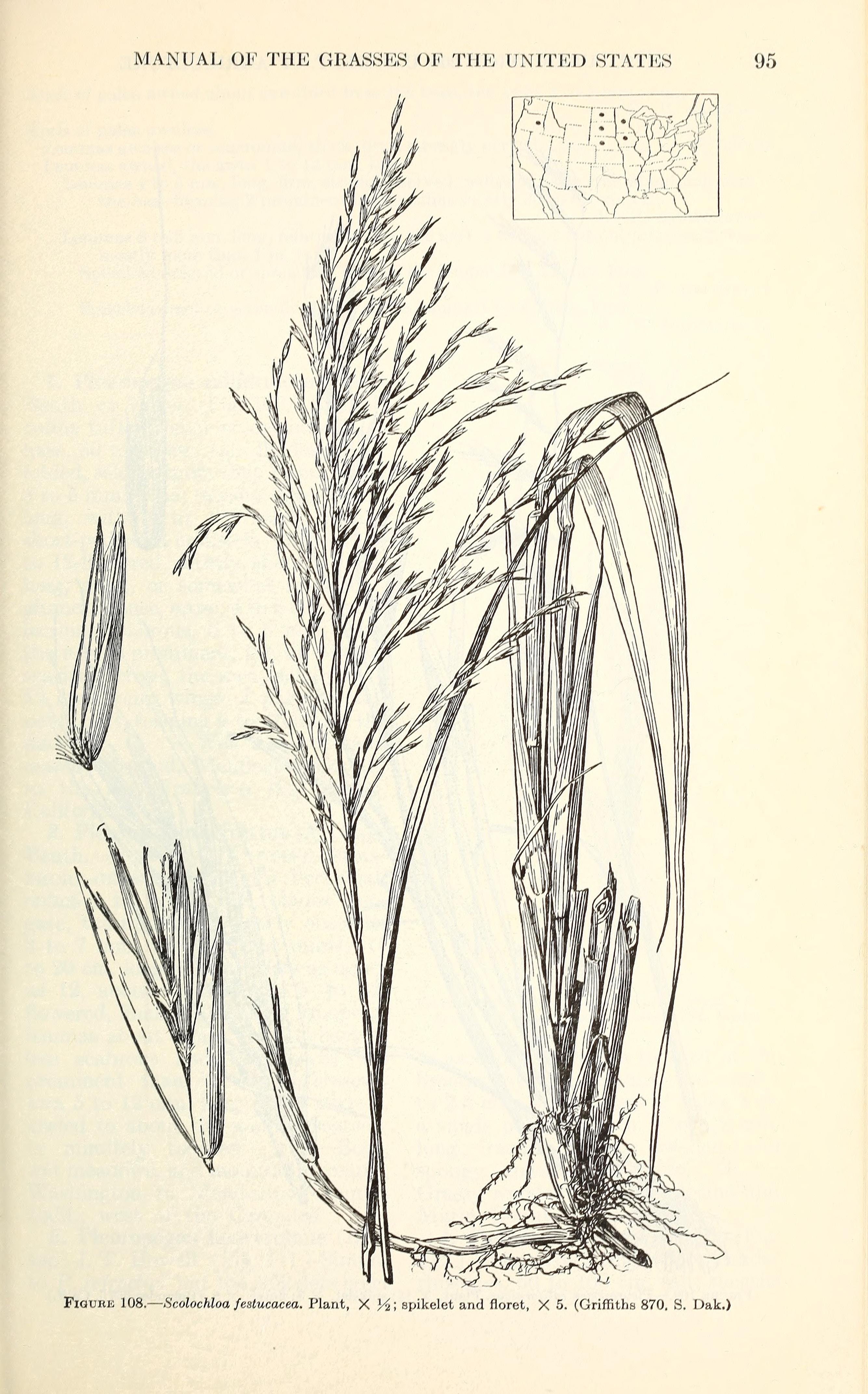 Manual of the grasses of the United States /